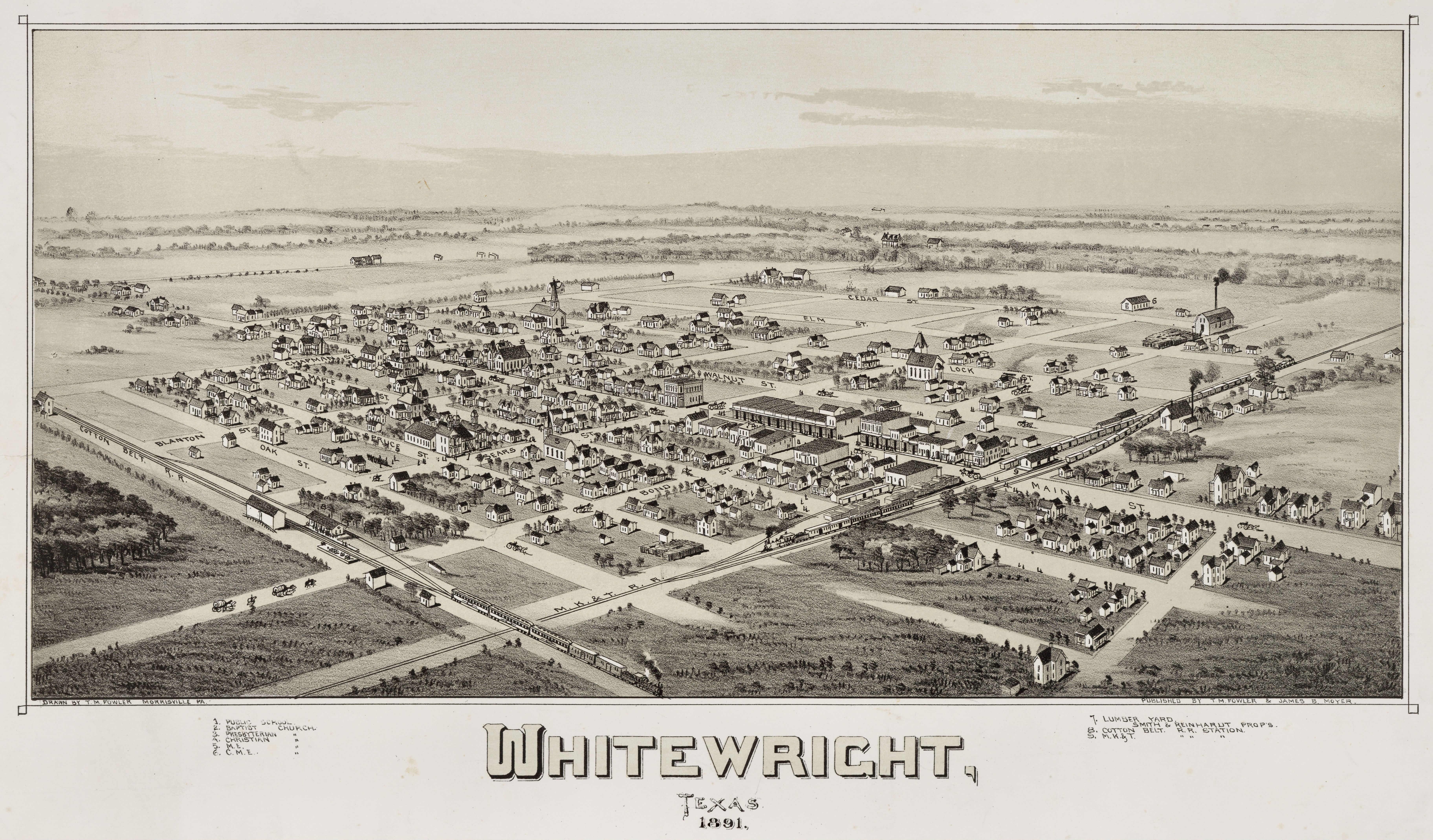 Whitewright, Texas in 1891. Whitewright, Texas 1891, 1891. Toned lithograph, 10.7 x 22 in. Published by T. M. Fowler & James B. Moyer. Amon Carter Museum, Fort Worth.